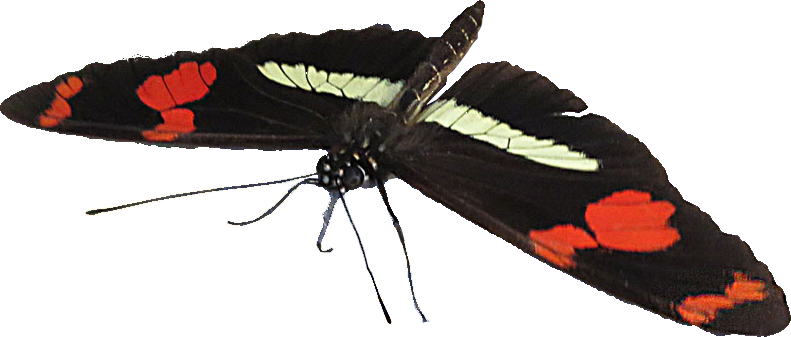 An heliconius telesiphe butterfly.